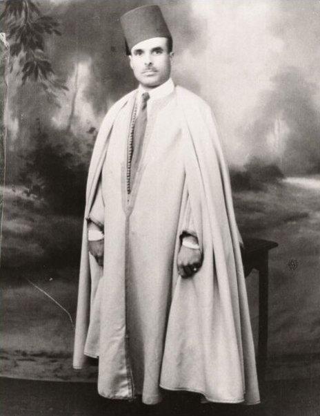 Picture of Habib Bourguiba back in Tunisia after studying in France